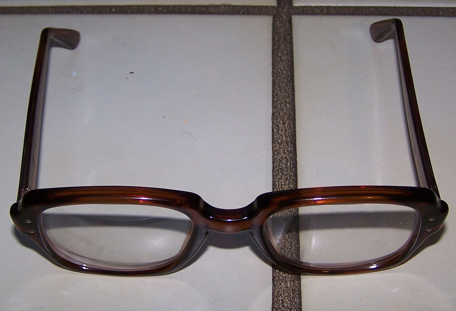 Military Birth Control Glasses (also known as RPGs -- Rape Prevention Glasses) circa mid 1990s.